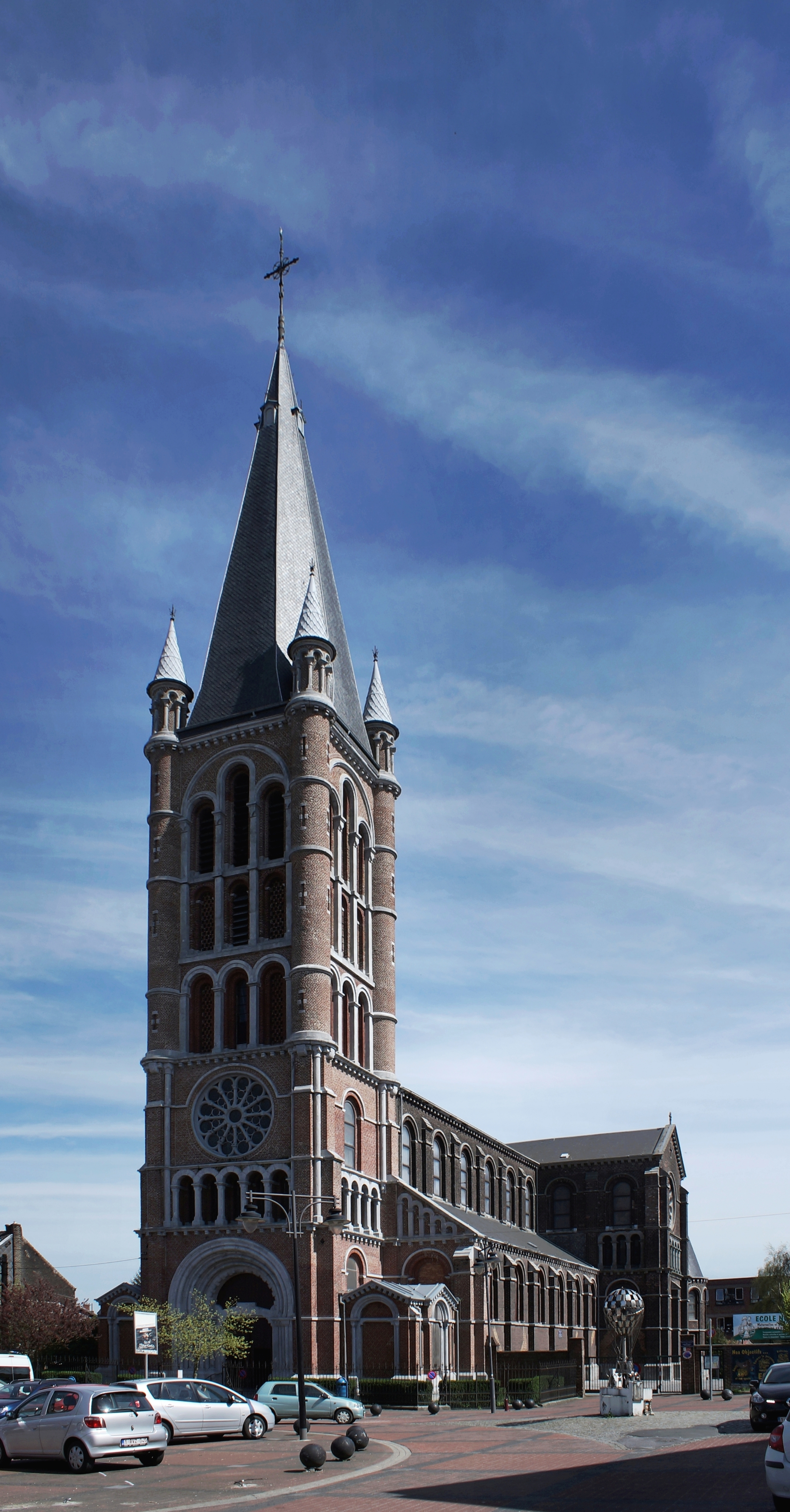 Jumet - Church of the Immaculate Conception